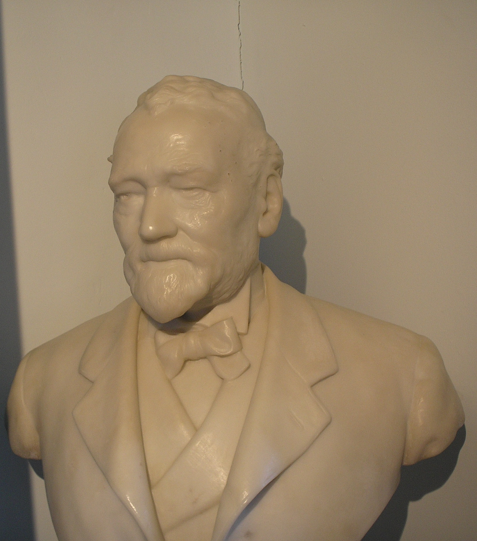 Photograph of a bust created to commemorate the granting of the freedom of the Borough of Tiverton to John Coles. The bust is on display at the Tiverton Museum of Mid Devon Life. The sculptor and exact date is unknown.